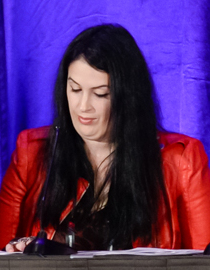 "Raid on Rise: Narrative Creation on 'Rise of The Tomb Raider' Rhianna Pratchett | Writer, Independent John Stafford | Lead Narrative Designer, Crystal Dynamics Cameron Suey | Narrative Designer, Crystal Dynamics Tore Blystad | Performance Director, Crystal Dynamics Jeff Adams | Senior Story Artist, Crystal Dynamics Noah Hughes | Creative Director, Crystal Dynamics Location: Room 3016, West Hall Date: Tuesday, March 15 Time: 10:00am - 11:00am"